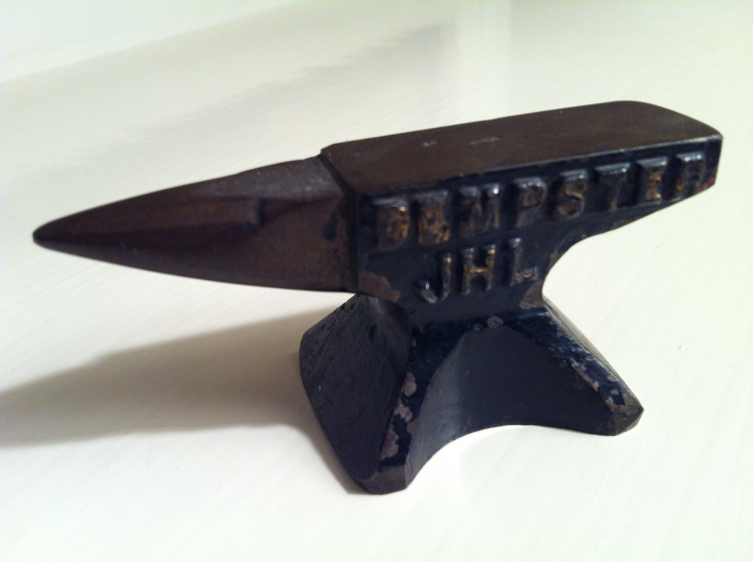 Photo of Dempster Miniature Anvil.